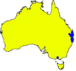 Angophora woodsiana occurrence data downloaded from Australasian Virtual Herbarium using on 21 March 2019